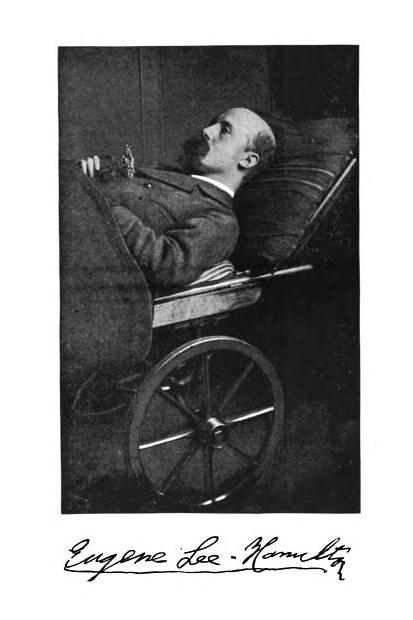 Eugene Lee-Hamilton (1845-1907) was a late Victorian English poet.